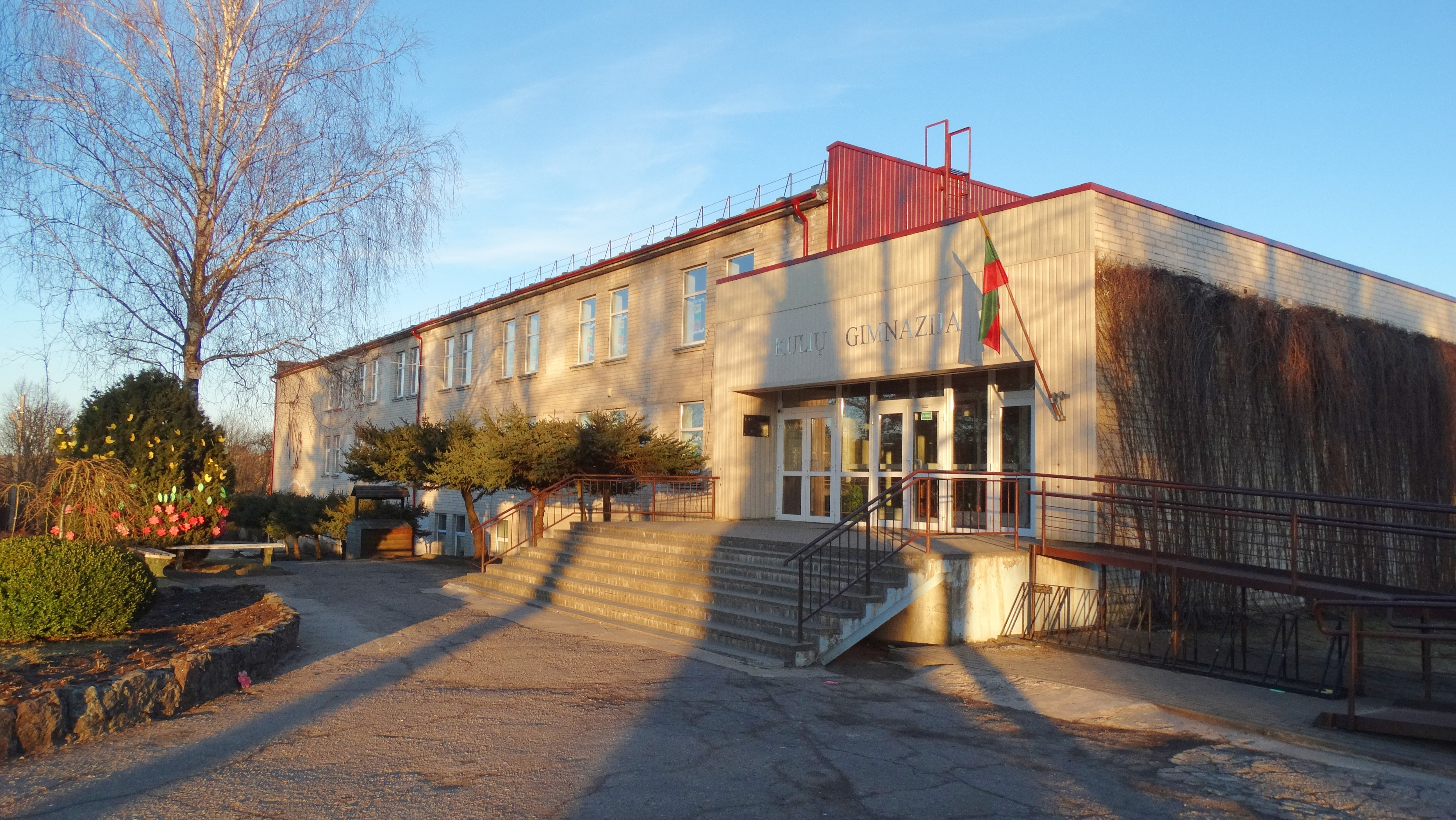 Gymnasium, Kuliai, Plungė District, Lithuania